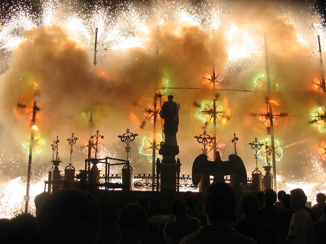 this is the grand finale of a fireworks show. This consists of 9 poles full of mechanised stars and flowers. The motion blur visible near the four rods on each pole show the immense speed at which the jets rotate. These are the power source for every firework, on Chinese New Year 2001.